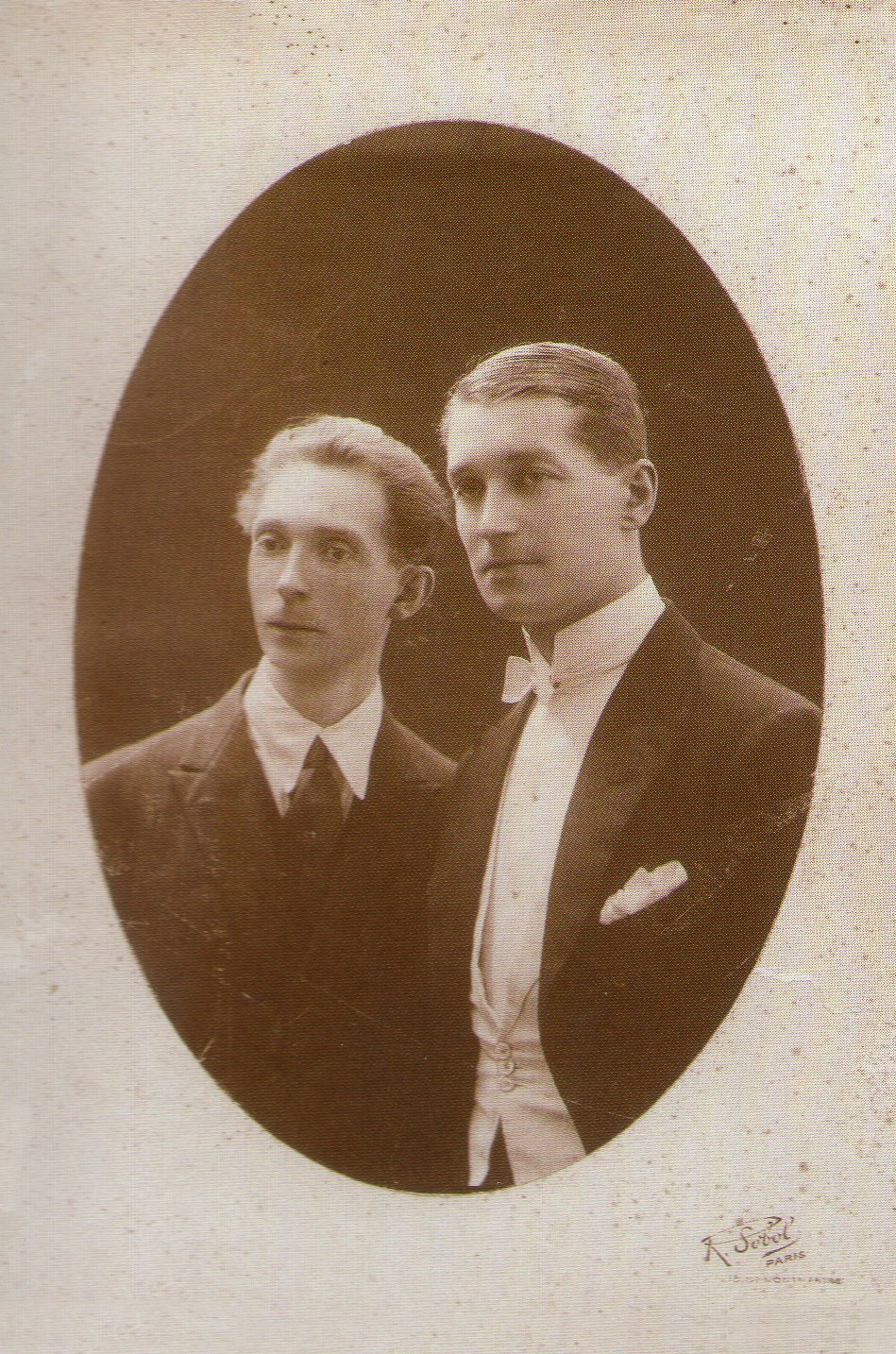 Maurice Chevalier with his brother Paul, 1912.